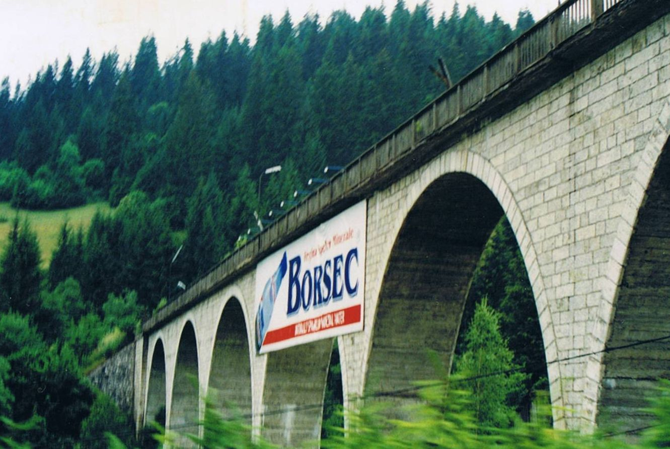 Borsec, Harghita County, Romania. A bridge.